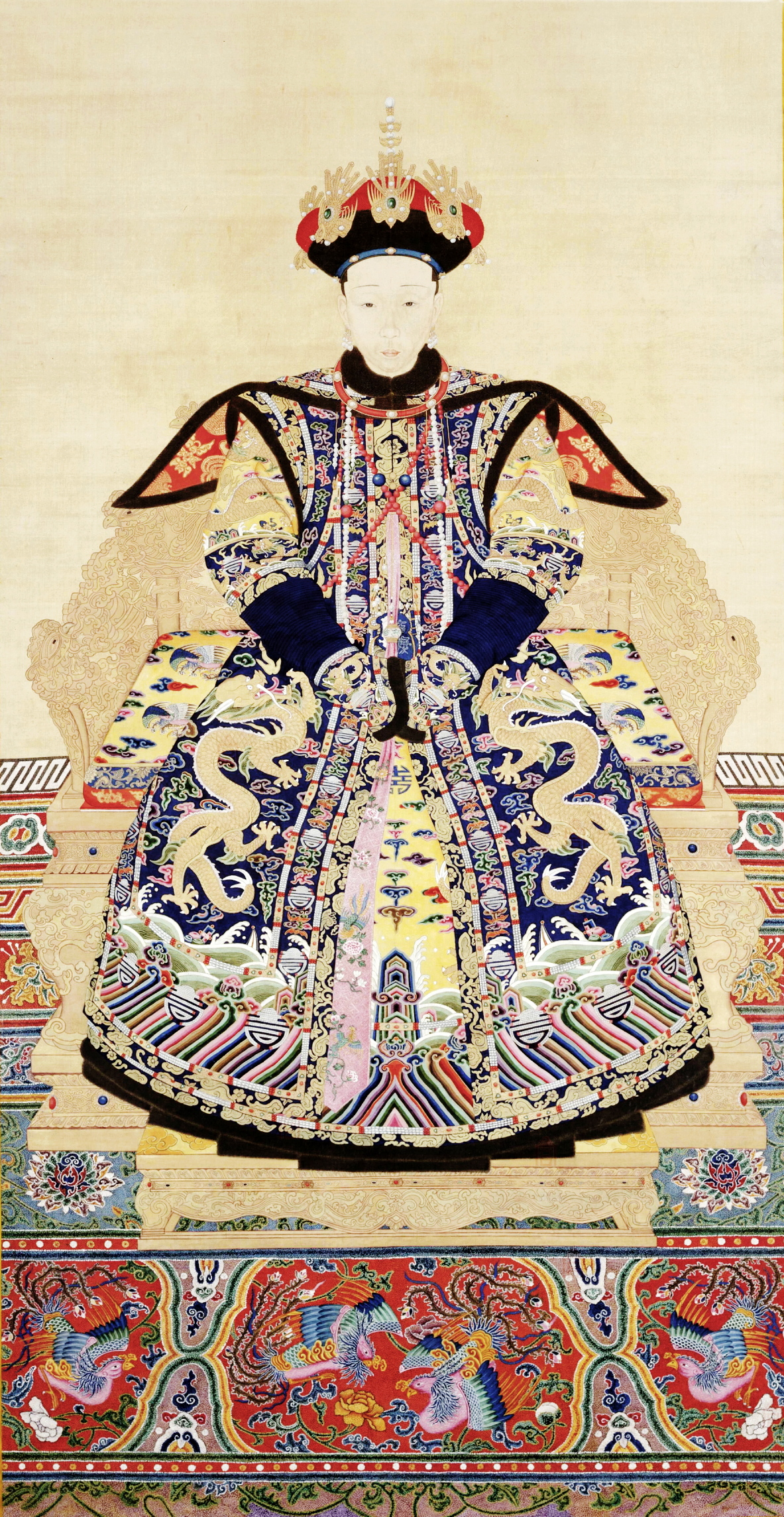 Depicted person: Empress Xiaoyichun – Qing Dynasty empress